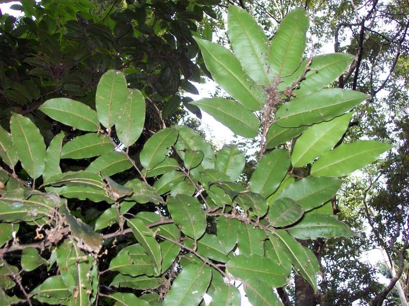 Mischocarpus pyriformis leaves, West Pennant Hills, Australia